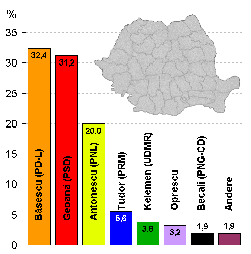 Results of the Presidential elections in Romania, Round 1, 2009-11-22